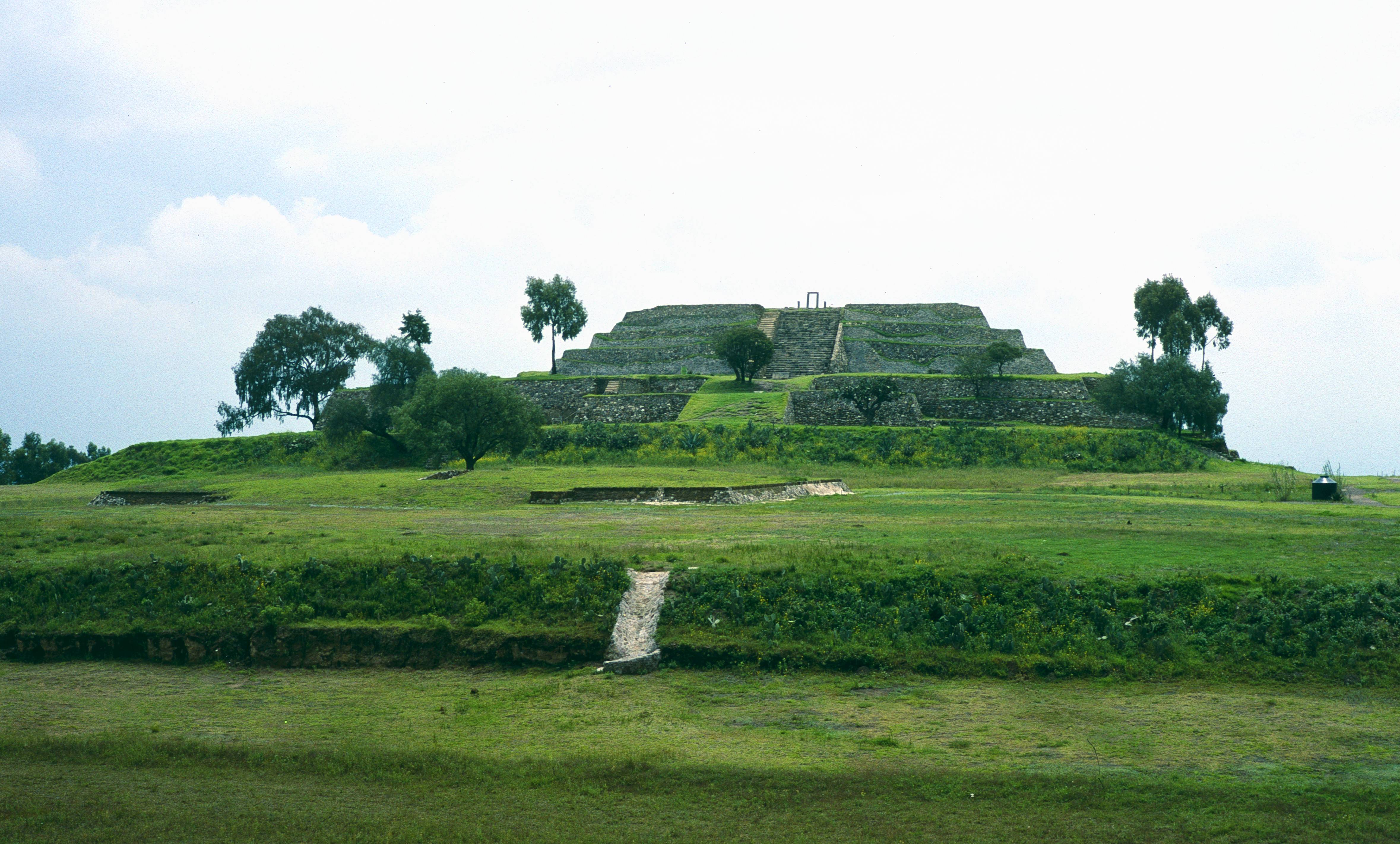 Xochitecatl, Tlaxcala, Mexico